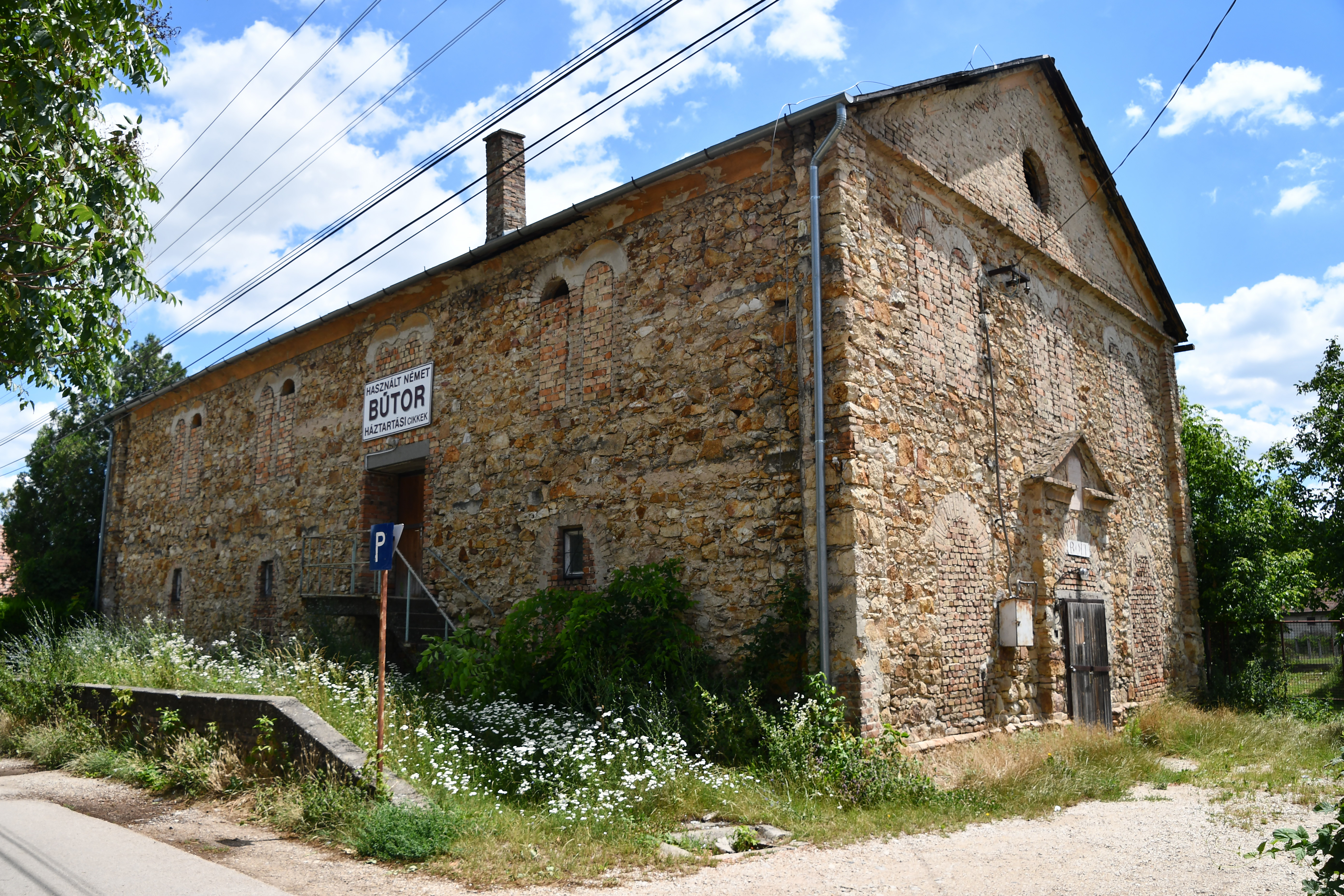 Derelict synagogue in Sárbogárd, Fejér County, Hungary